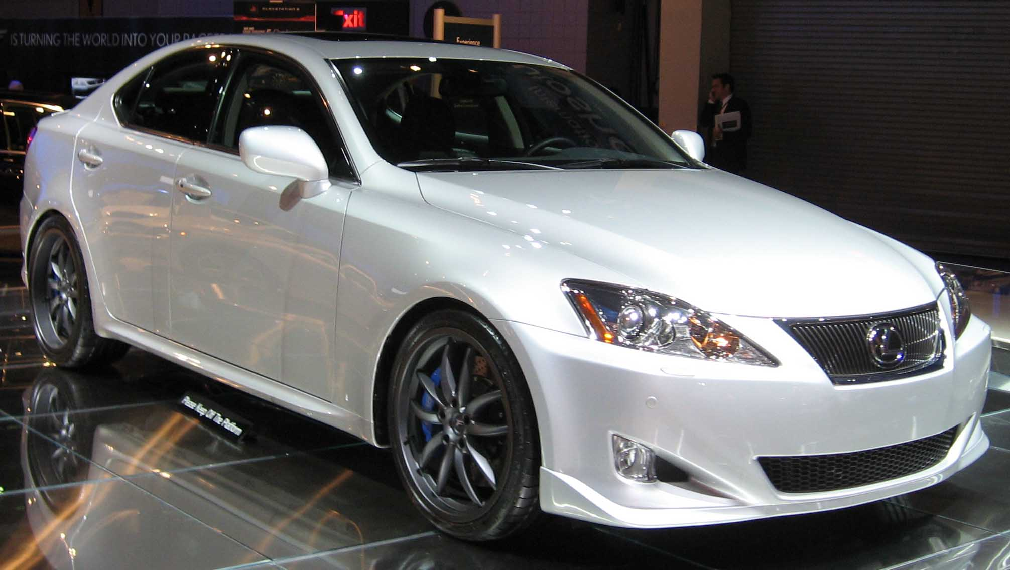 2008 Lexus F-Sport equipped IS photographed at the 2008 New York Auto Show.